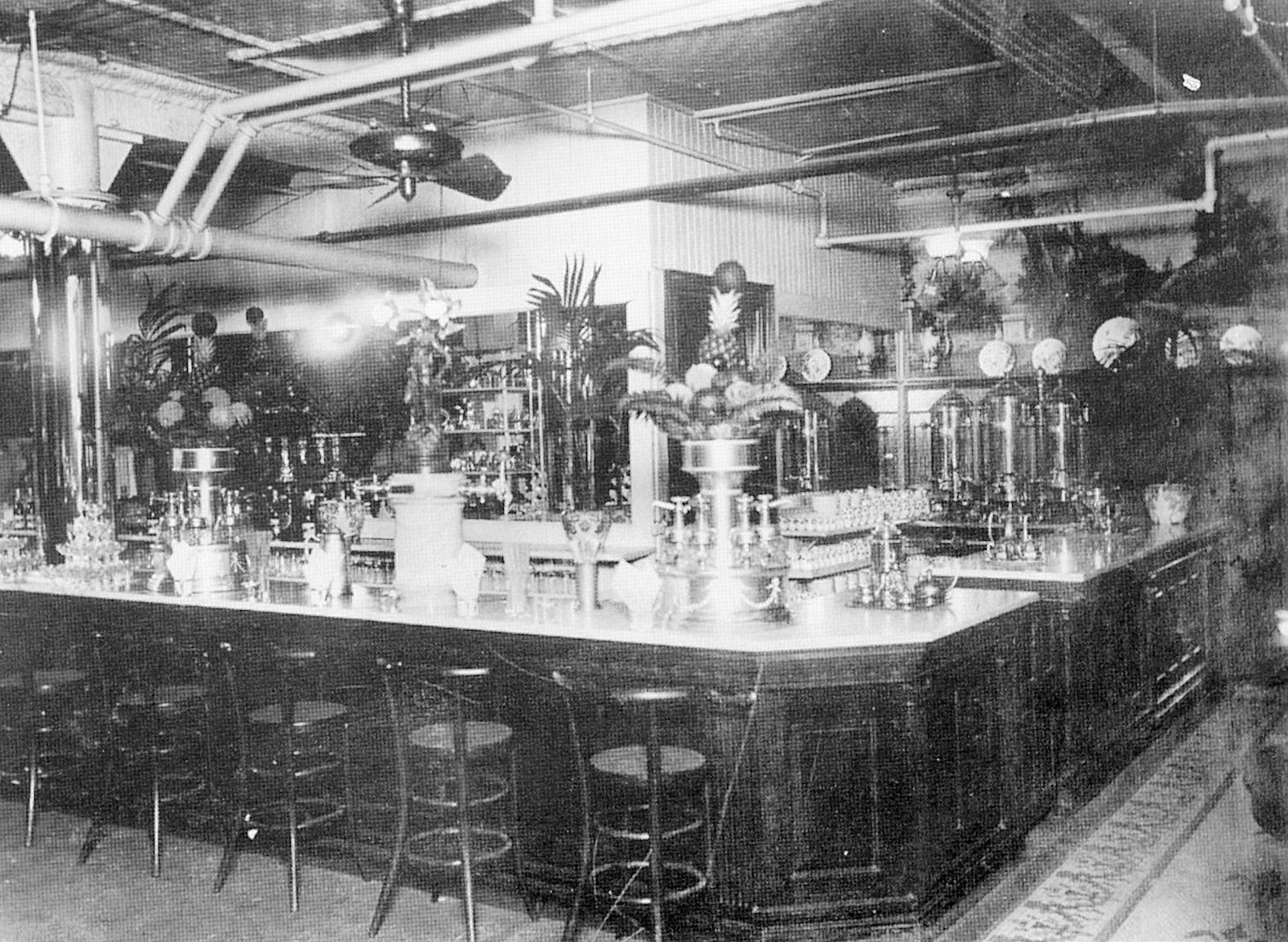 Soda Fountain at Hess Brothers, Allentown, Pennsylvania, opened in 1913